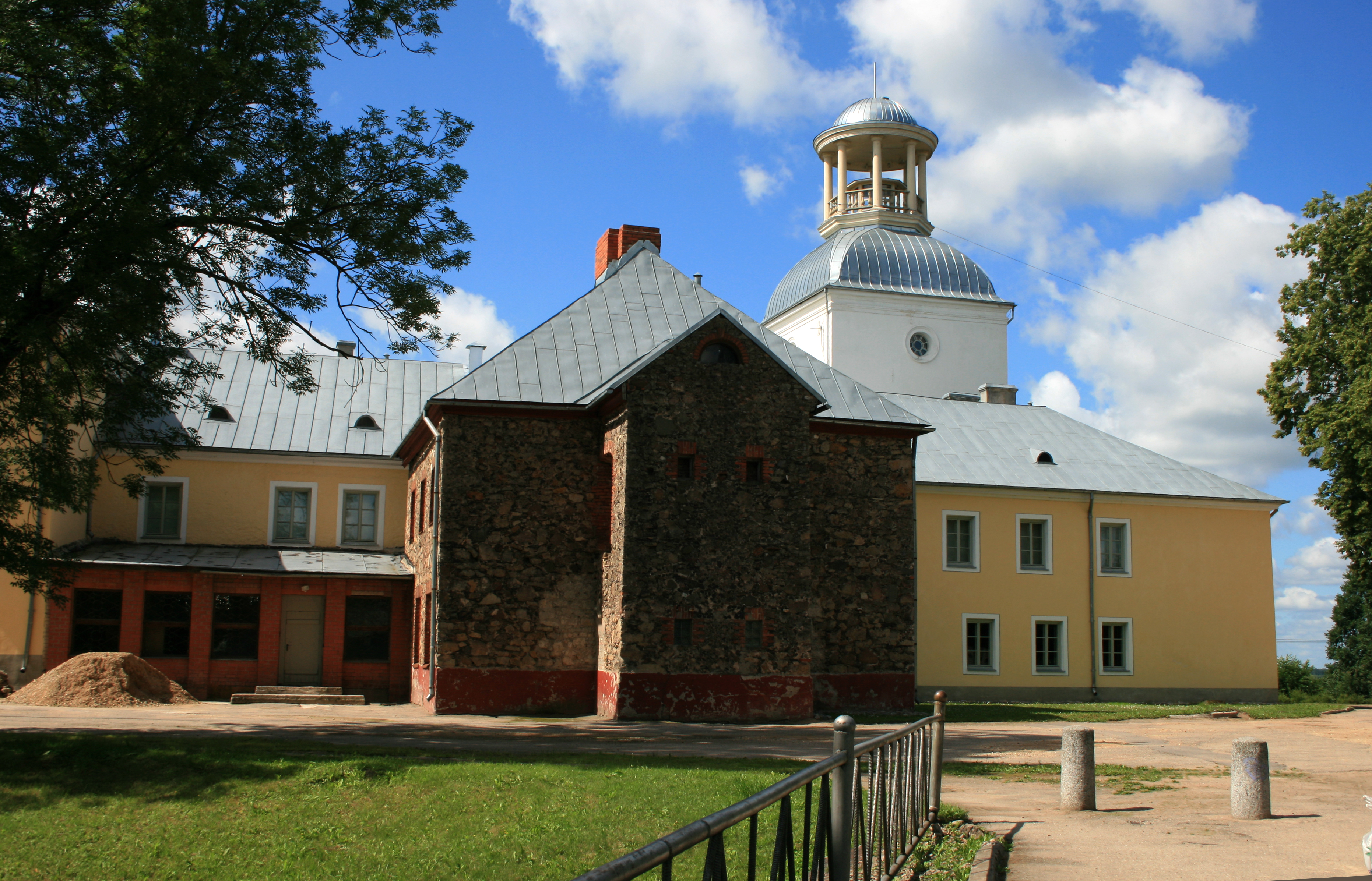 Krustpils Castle in Jēkabpils